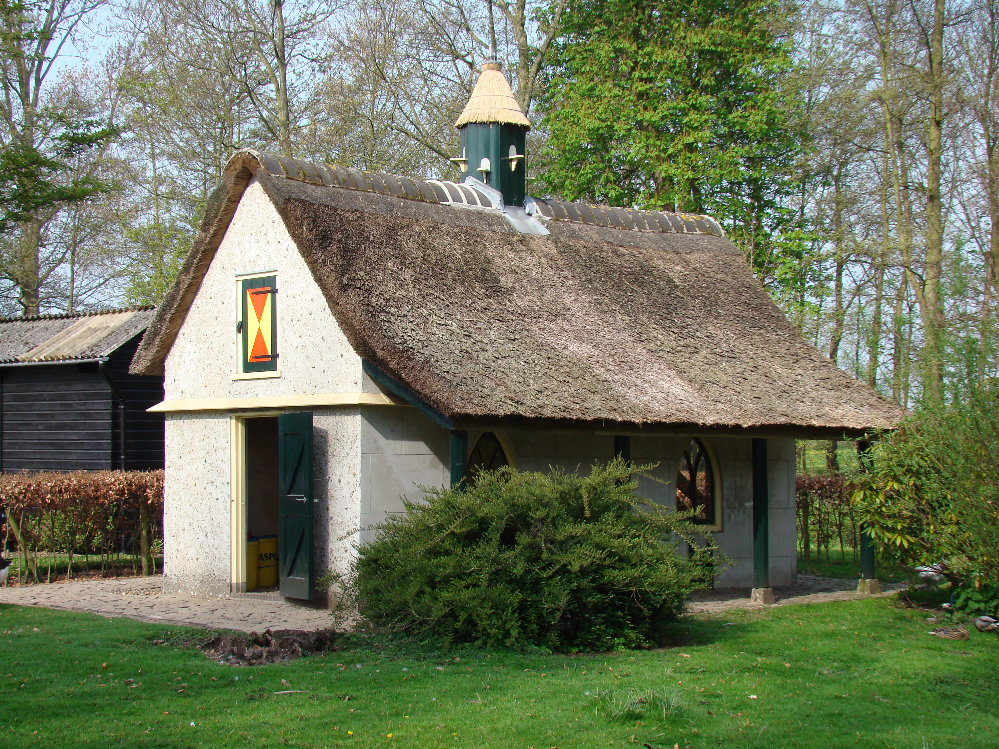 Impressions of Castle Keukenhof at Lisse, Netherlands